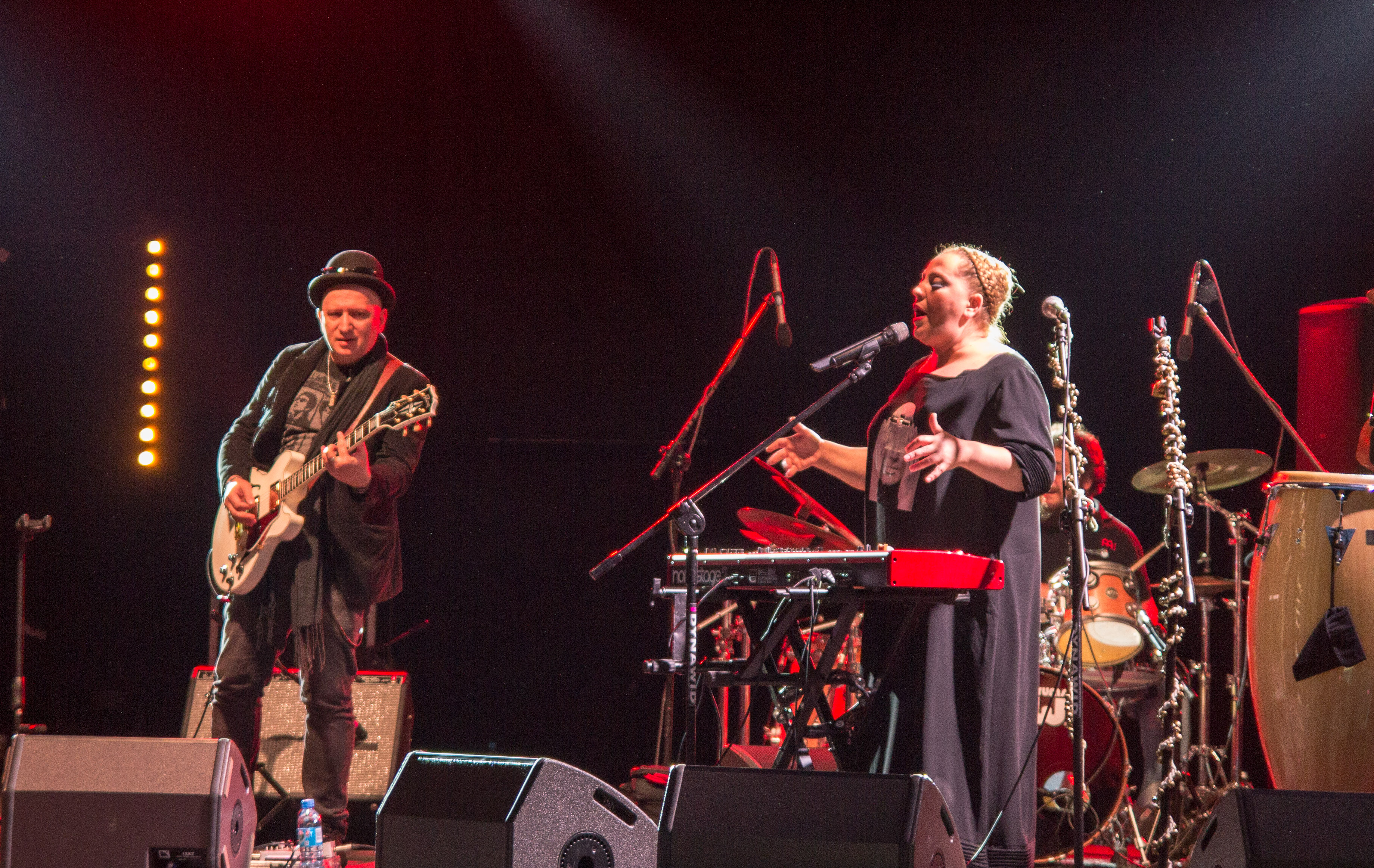 Koncert podczas Ino-Rock Festival 2014.